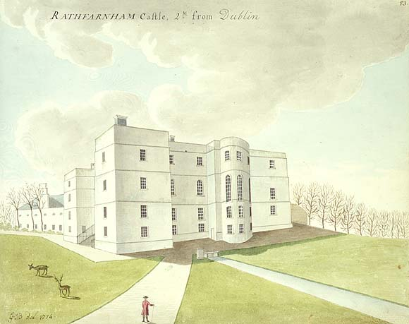 Rathfarnham Castle, watercolour, 1774. Artist: Gabriel Beranger (ca. 1729-1817). Source: [1]